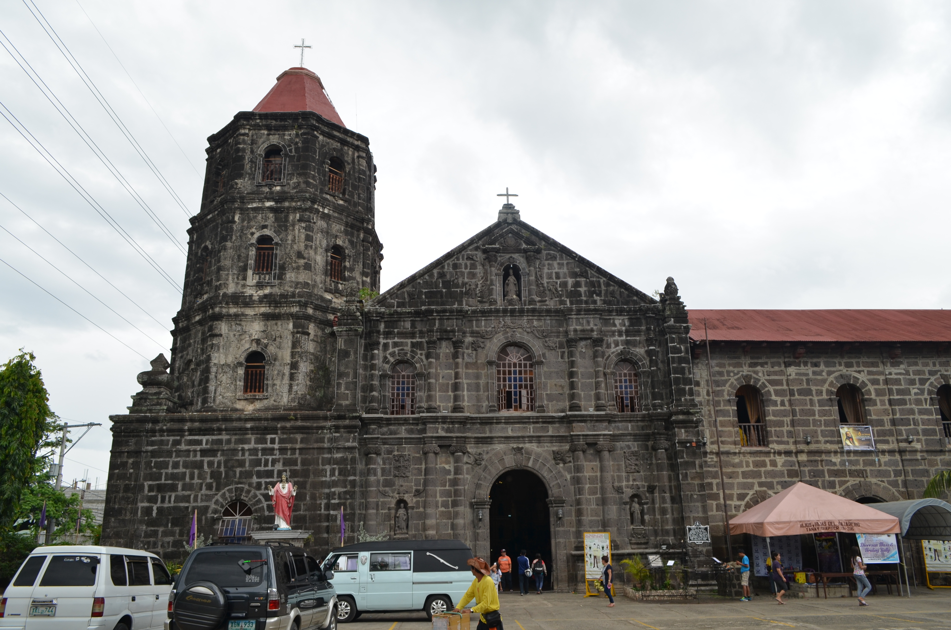 Tanay Church